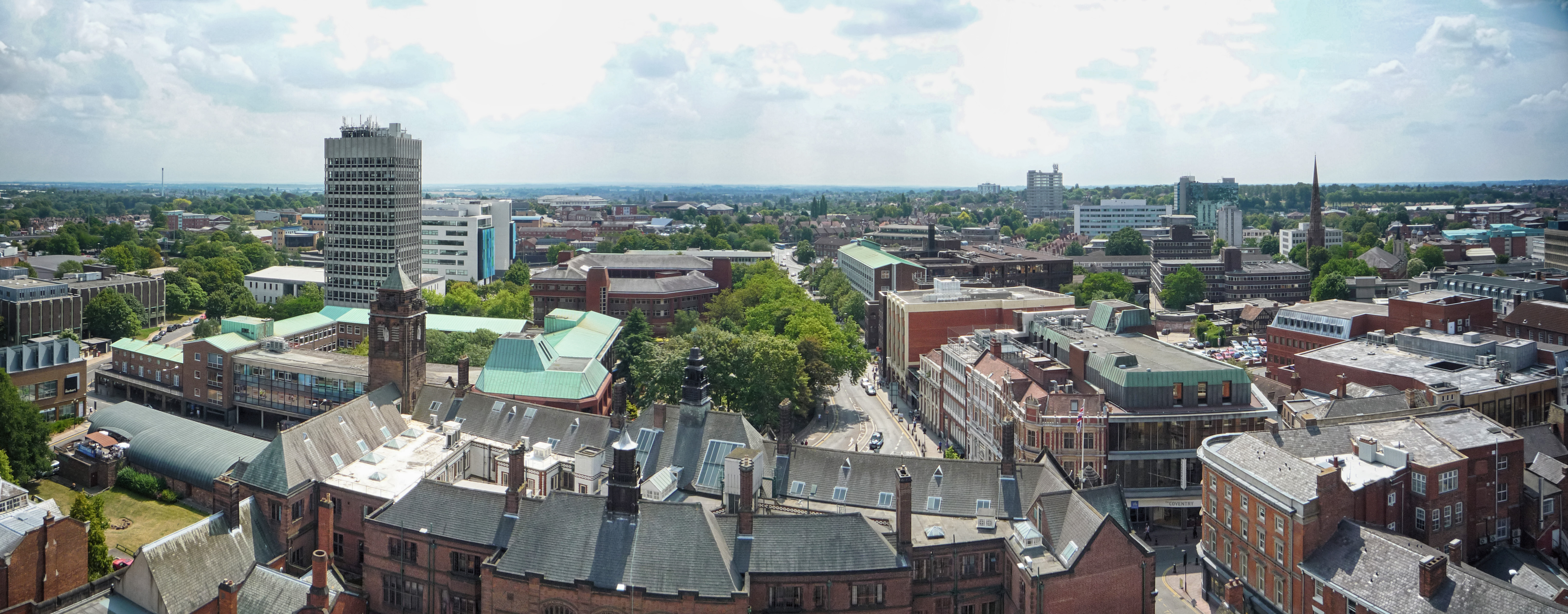 Coventry Cathedral Tower panoramic views, taken on 3rd August 2011 by Si (User:mintchociecream). This version released into the public domain via Wikicommons on 25 Aug 2011. South view - towards Civic Centre